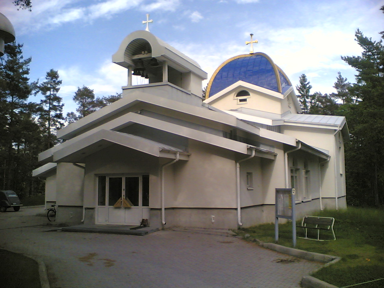 The orthodox church of Tapiola, Espoo.